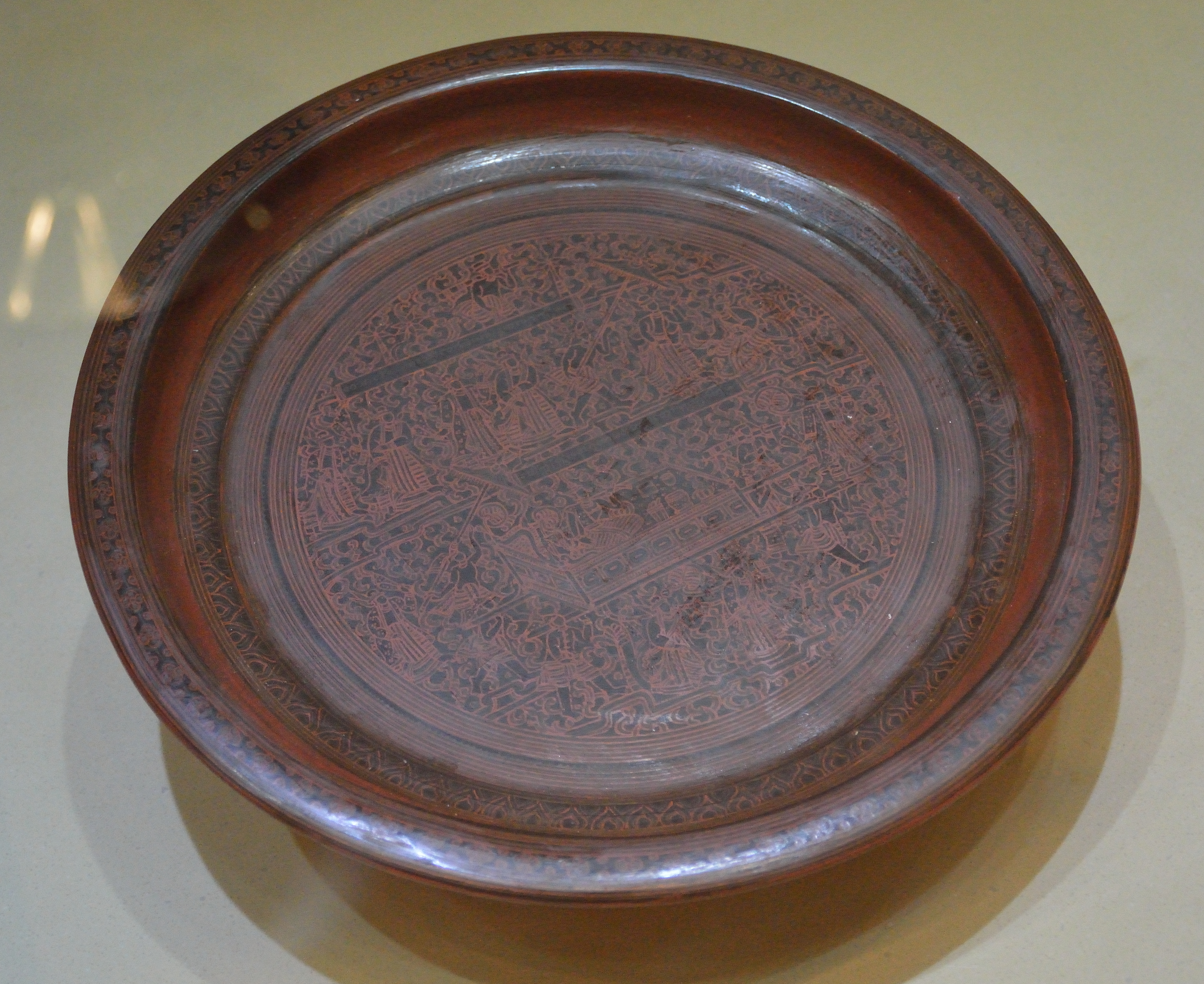 This photograph has been taken during the 'Indian Buddhist Art' exhibition that organised by the Indian Museum, Kolkata with 91 rare Buddhist artifacts comprising sculptures and manuscripts at its two different halls to celebrate 202nd anniversary of the museum. This exhibition was previously shown to China, Japan, Singapore and New Delhi also between September 2014 and December 2015.